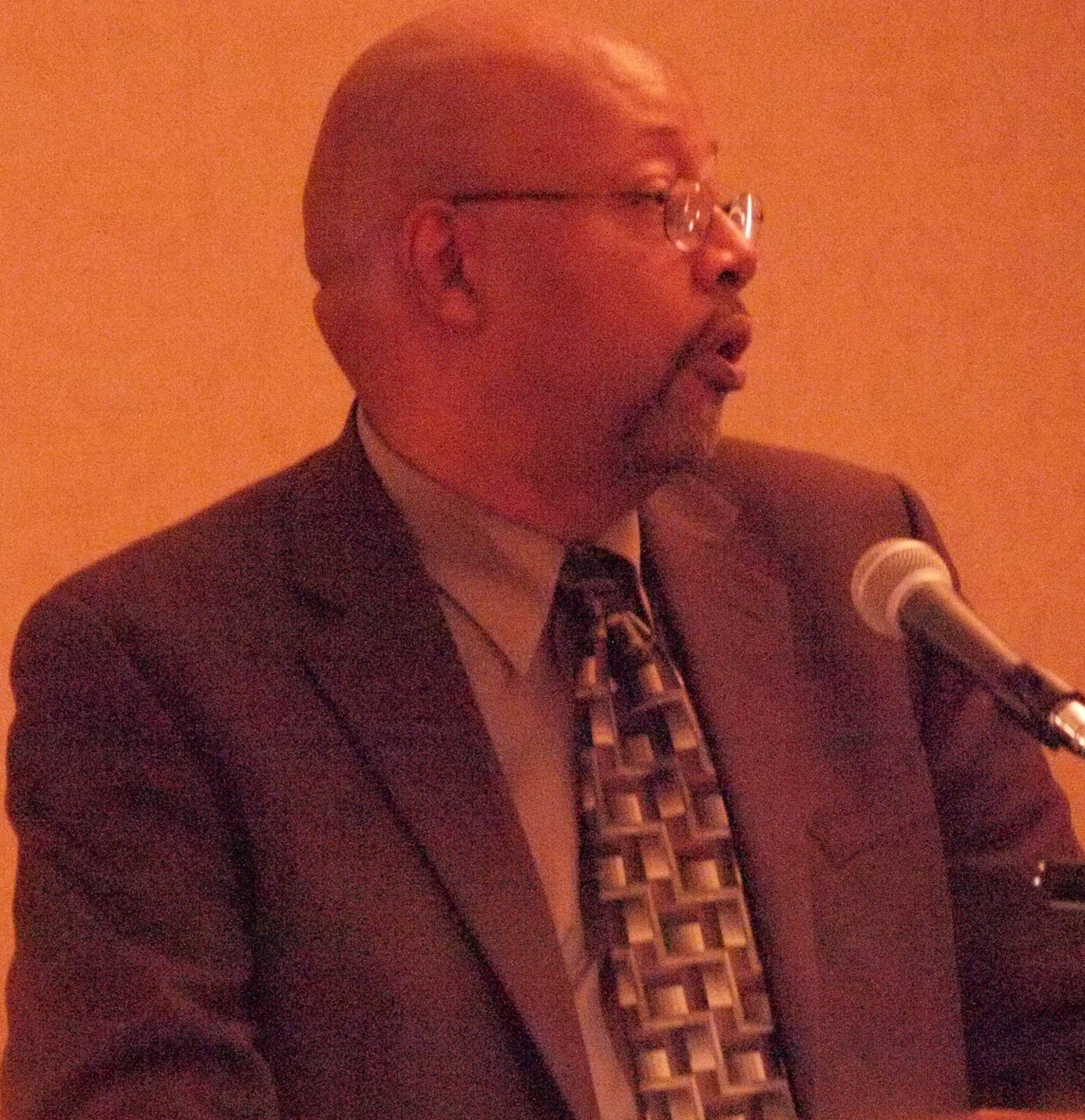 Leonard Pitts at a conference at UT